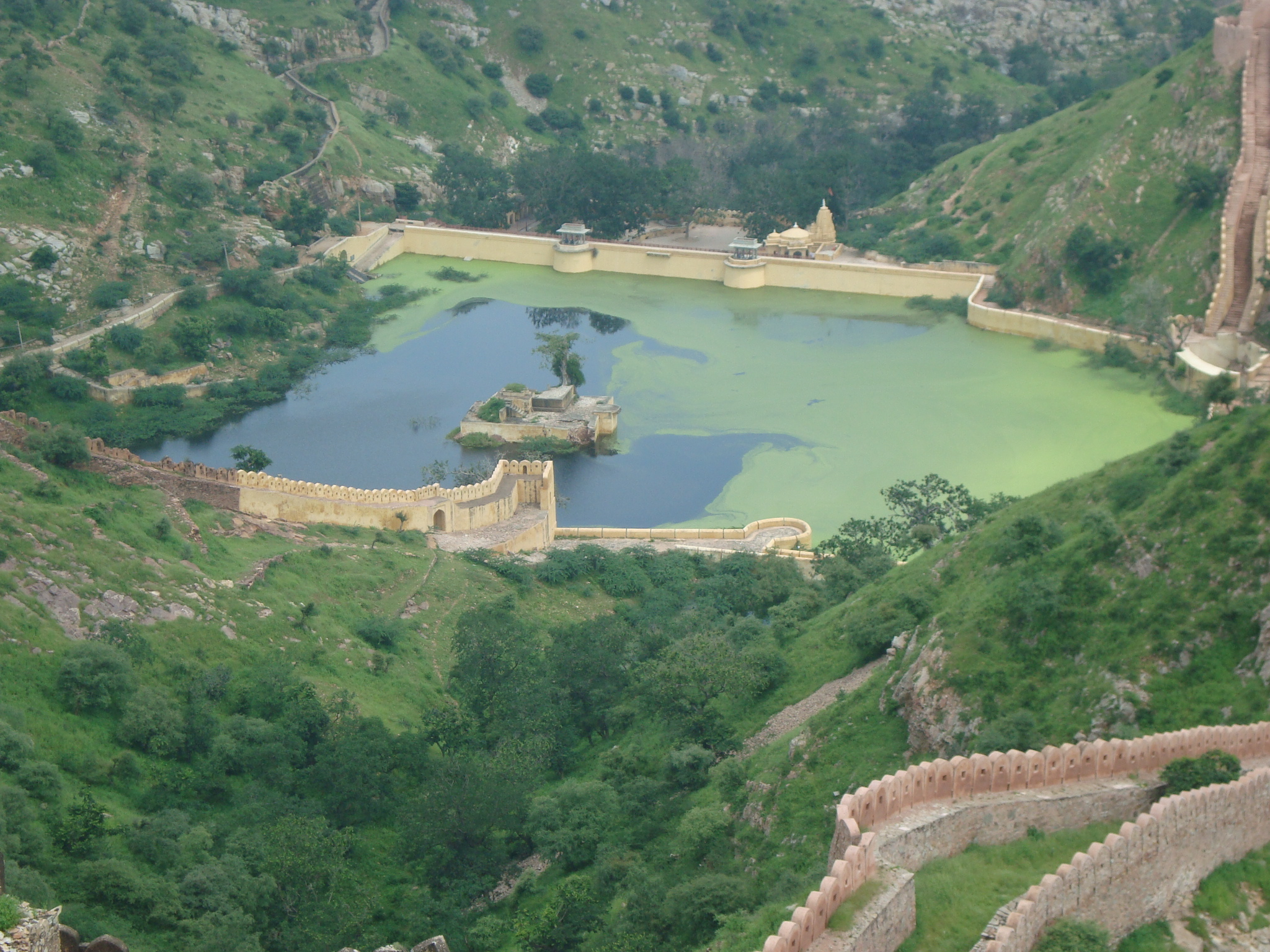 A water tank near the fort wall of Jaigarh Fort